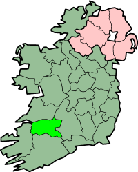 County Limerick map into Ireland 08:05, 5 February 2004 Morwen 200x249 (30683 bytes) (map)